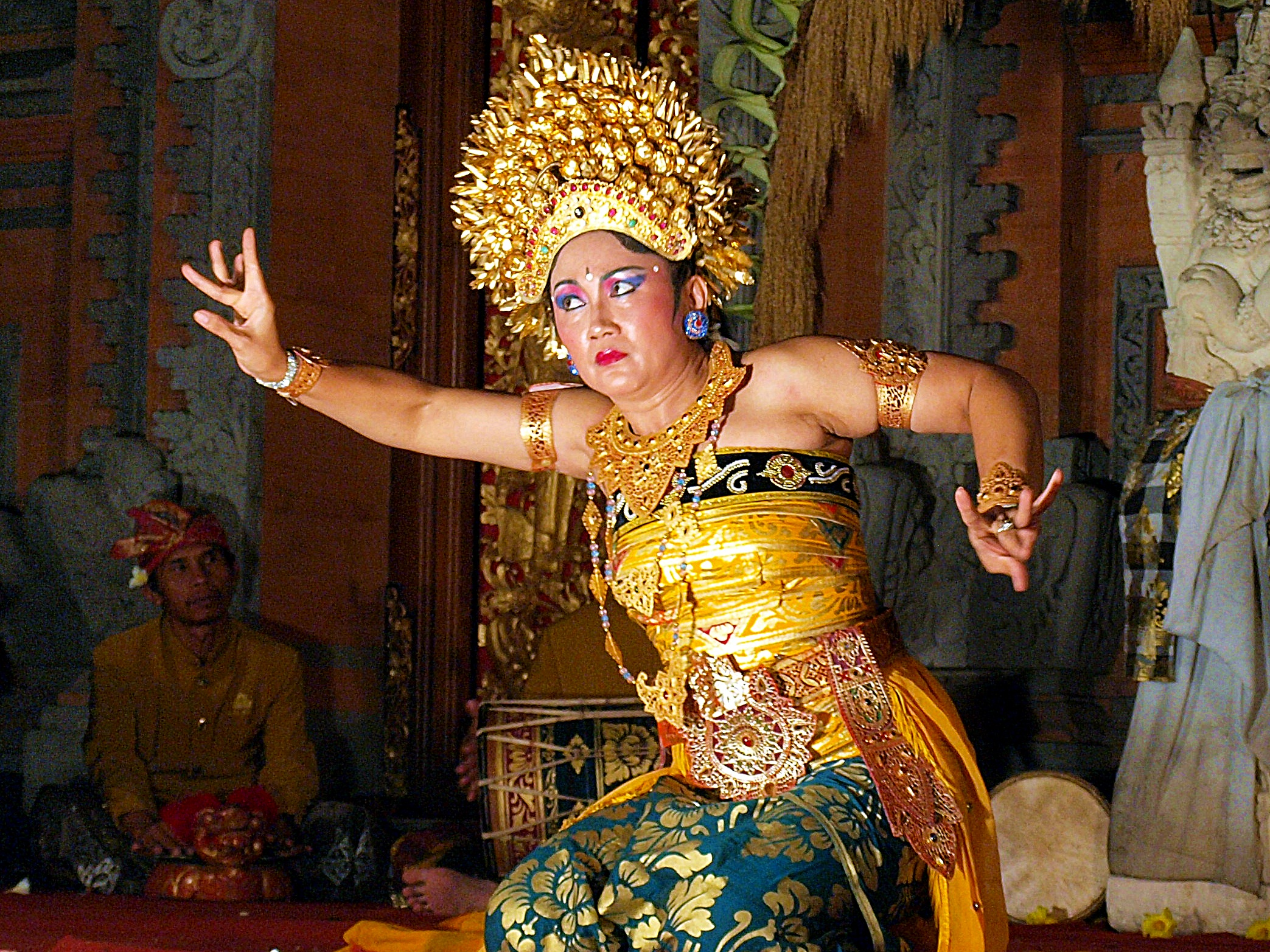 Traditional dance form of Bali with Hindu stories as backdrop. This dance performed at the Royal Palace, Ubud, Bali